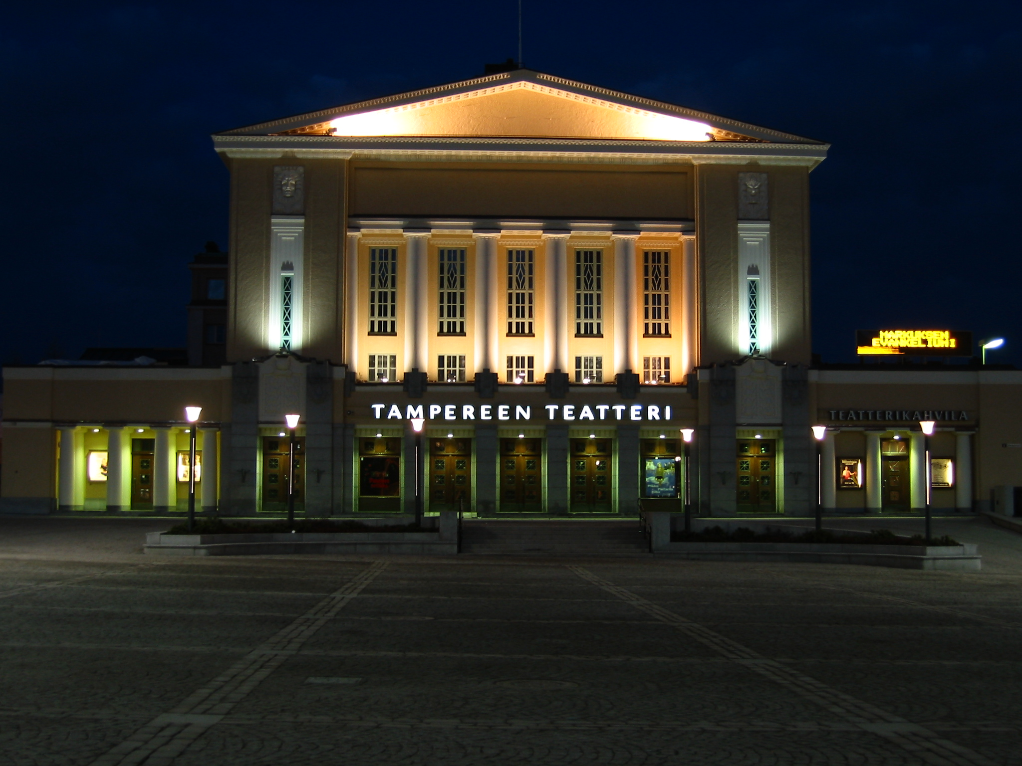 Tampere Theatre, Tampere, Finland 2002.